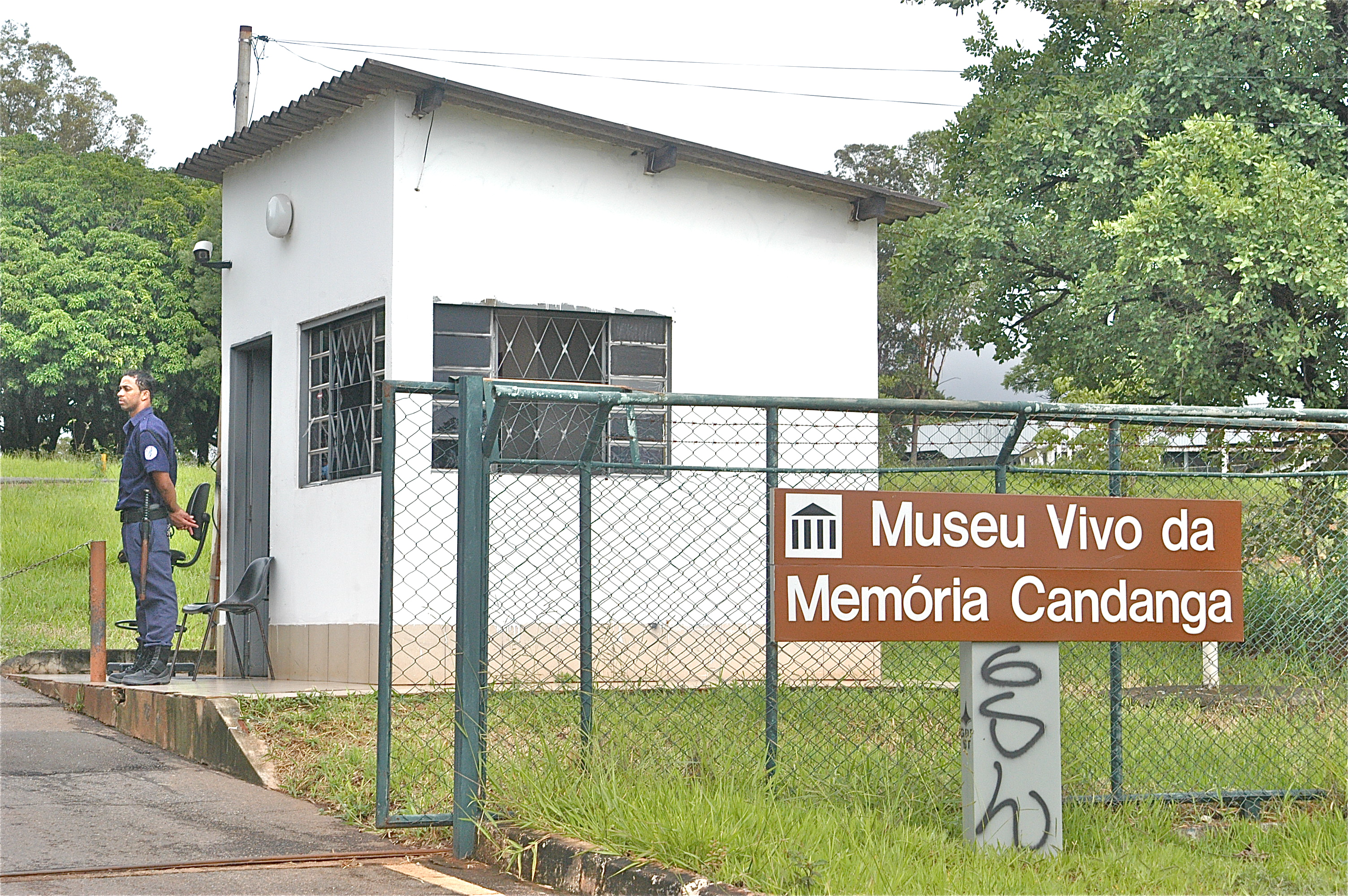 Brasilia Memories Live Museum entrance